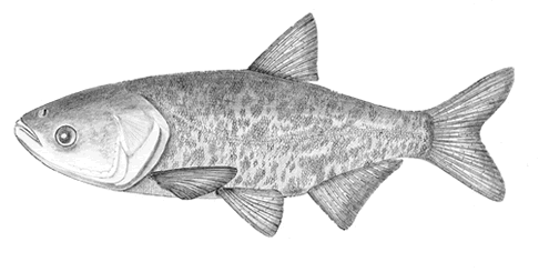 This image is a work of a United States Geological Survey employee, taken or made during the course of the person's official duties. As a work of the United States Government, the image is in the public domain. For more information, see the USGS copyright policy.